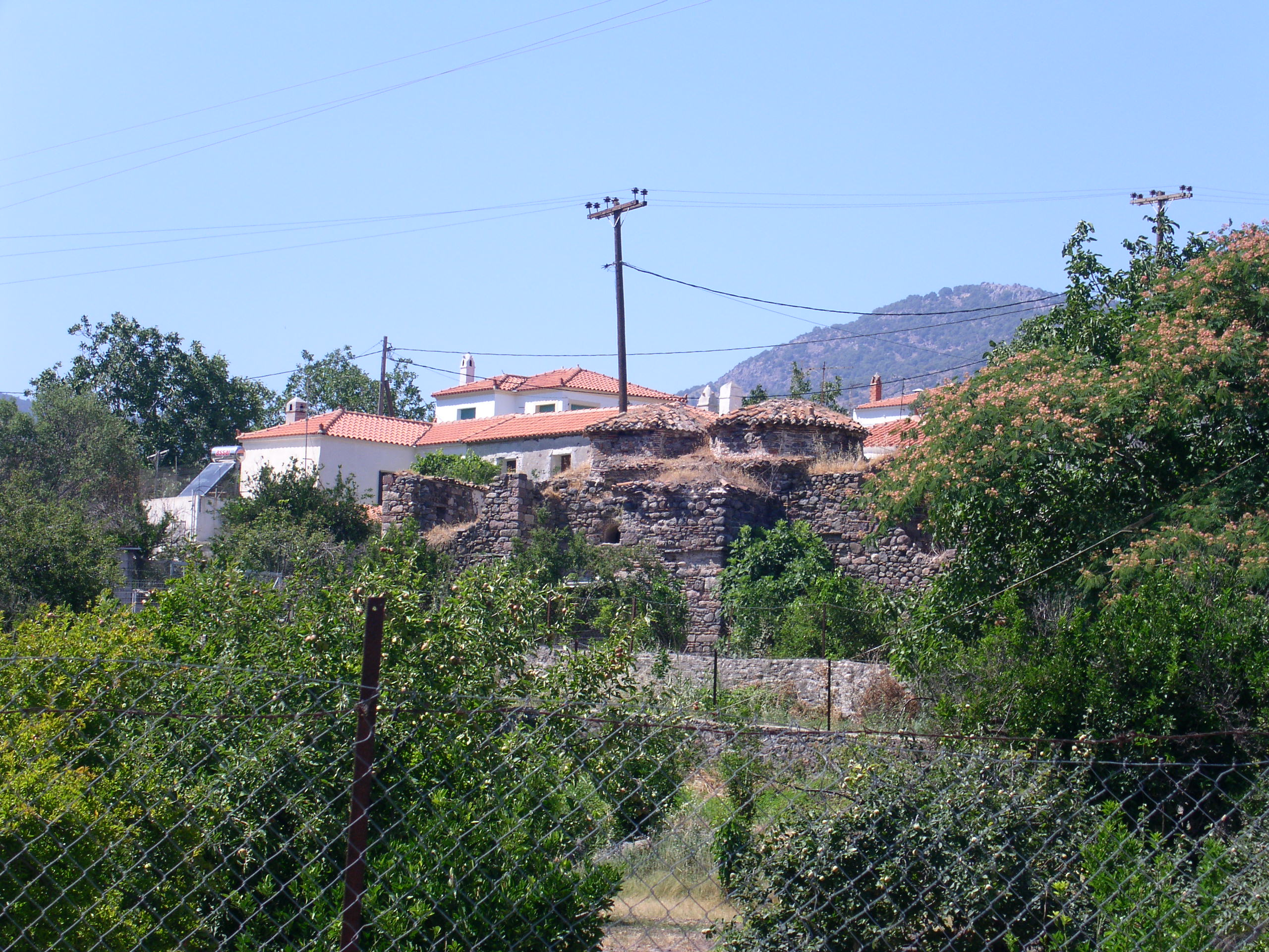 Turish bathhouse in Parakila, Lesbos, Greece